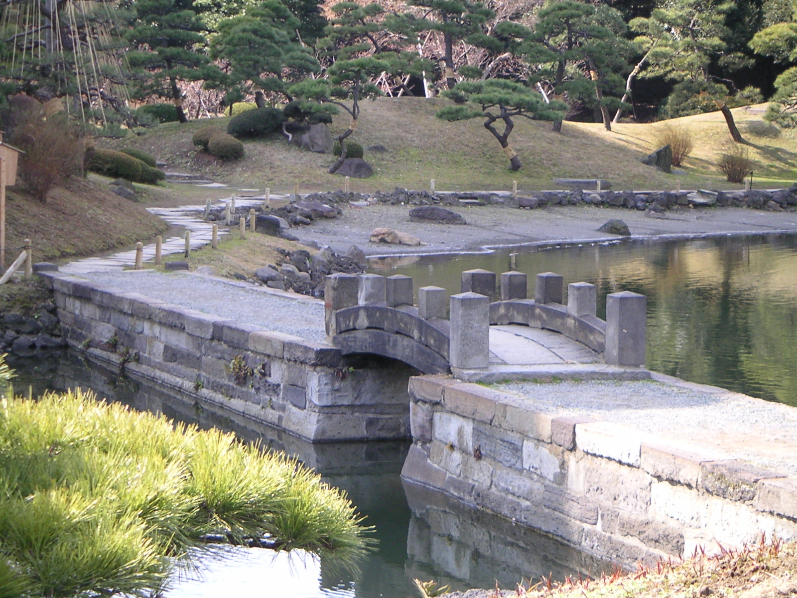 KyuShibarikyu onshiteien Saikotsutsumi